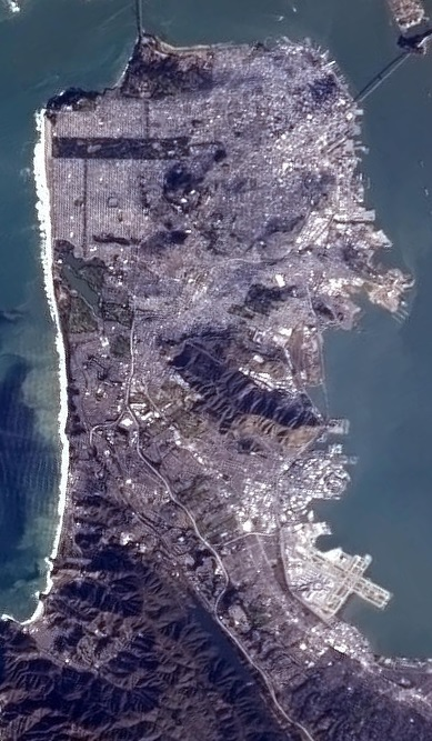 San Francisco peninsula, seen from the ISS